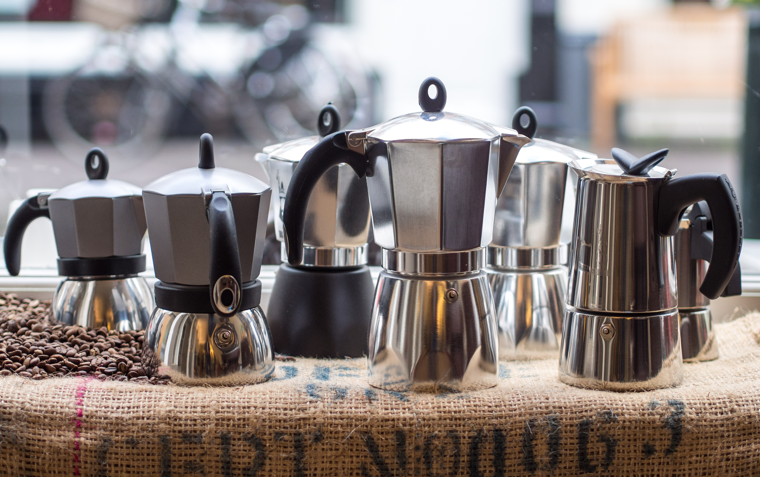 A selection of Bialetti moka pots at Koffiebranderij BOON in The Hague.